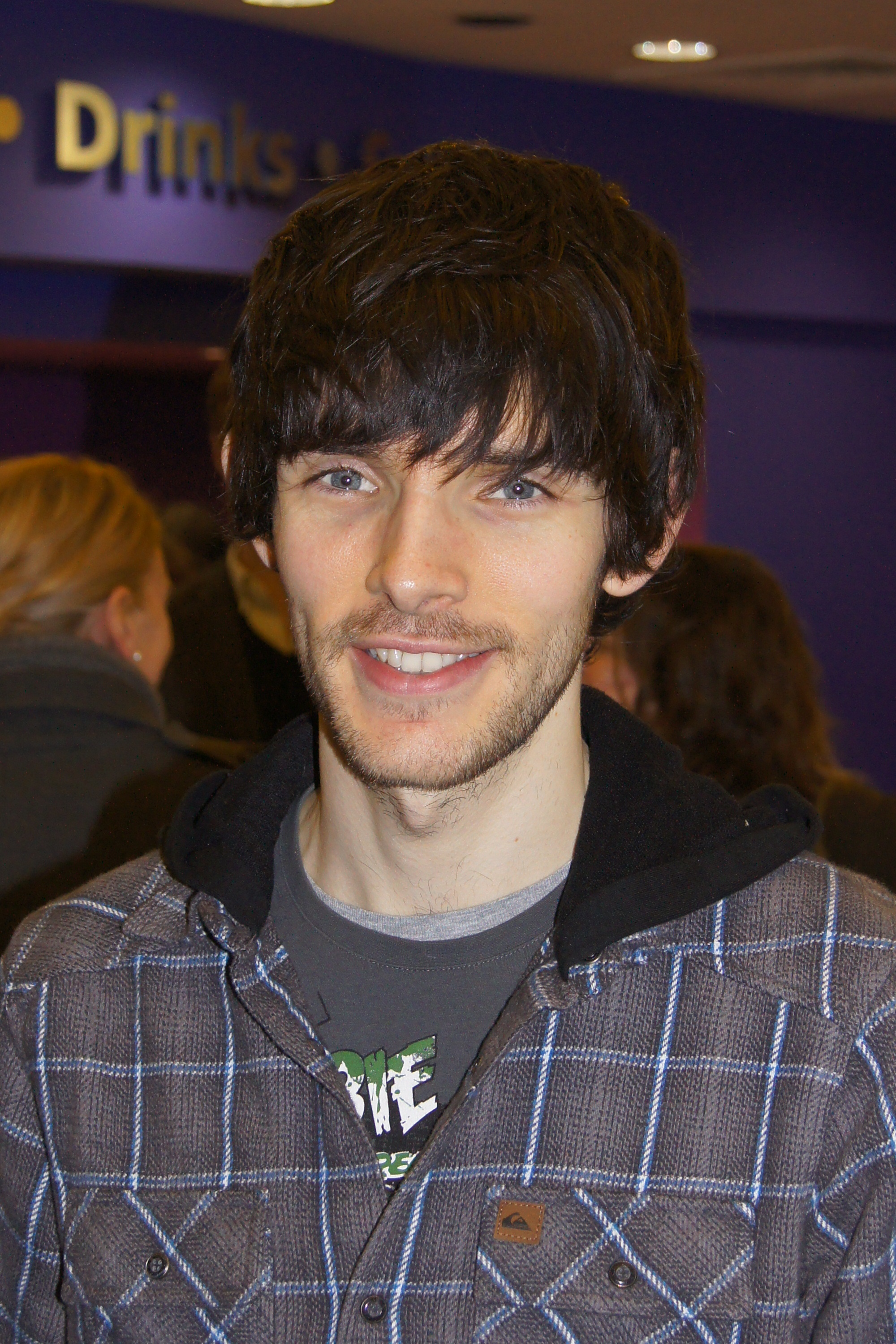 Actor Colin Morgan after the premiere of film Island. Cineworld Glasgow Sunday 20th February 2011